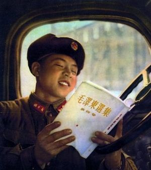 Lei Feng (18 December 1940 – 15 August 1962) was a soldier of the People's Liberation Army of China.